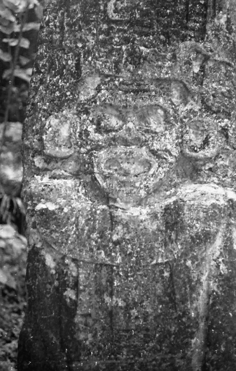 Late Classic Maya stella at Seibol Guatemala (Peten). Despite it's primitive appearance, this stella is late classic-- representing a new cult or a ruler at Seibol.